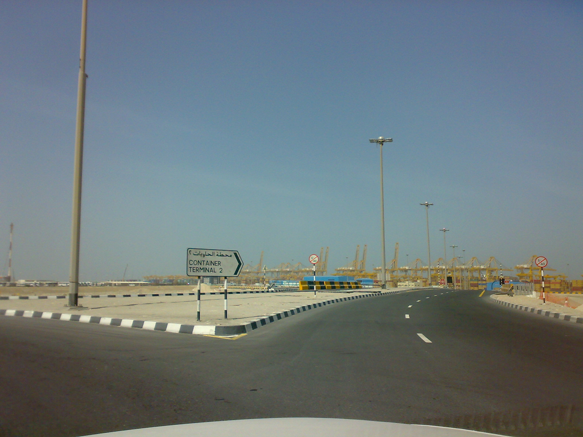 Port Jebel Ali container terminal No 2, Dubai (UAE)